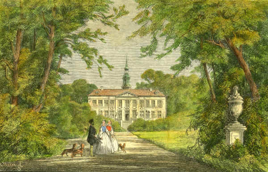 Wandsbek Castle in Hamburg-Wandsbek. Despite its good structural condition, it was torn down in 1861. Colored drawing by Adolf Mosengel.